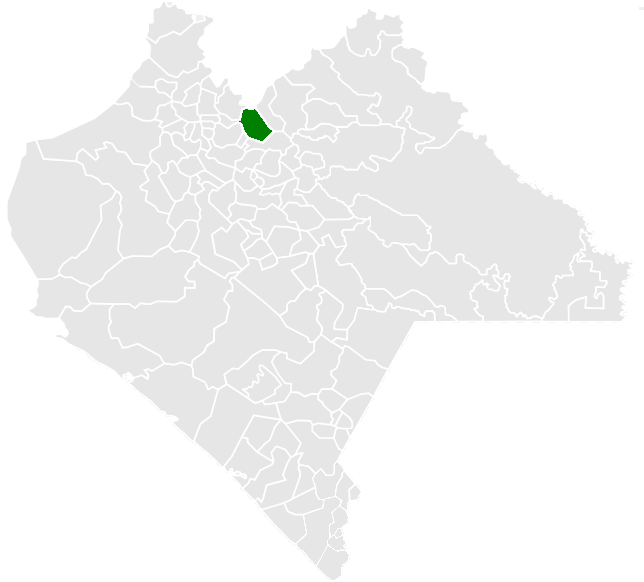 Map of the Municipalty of Huitiupán in the State of Chiapas, México.